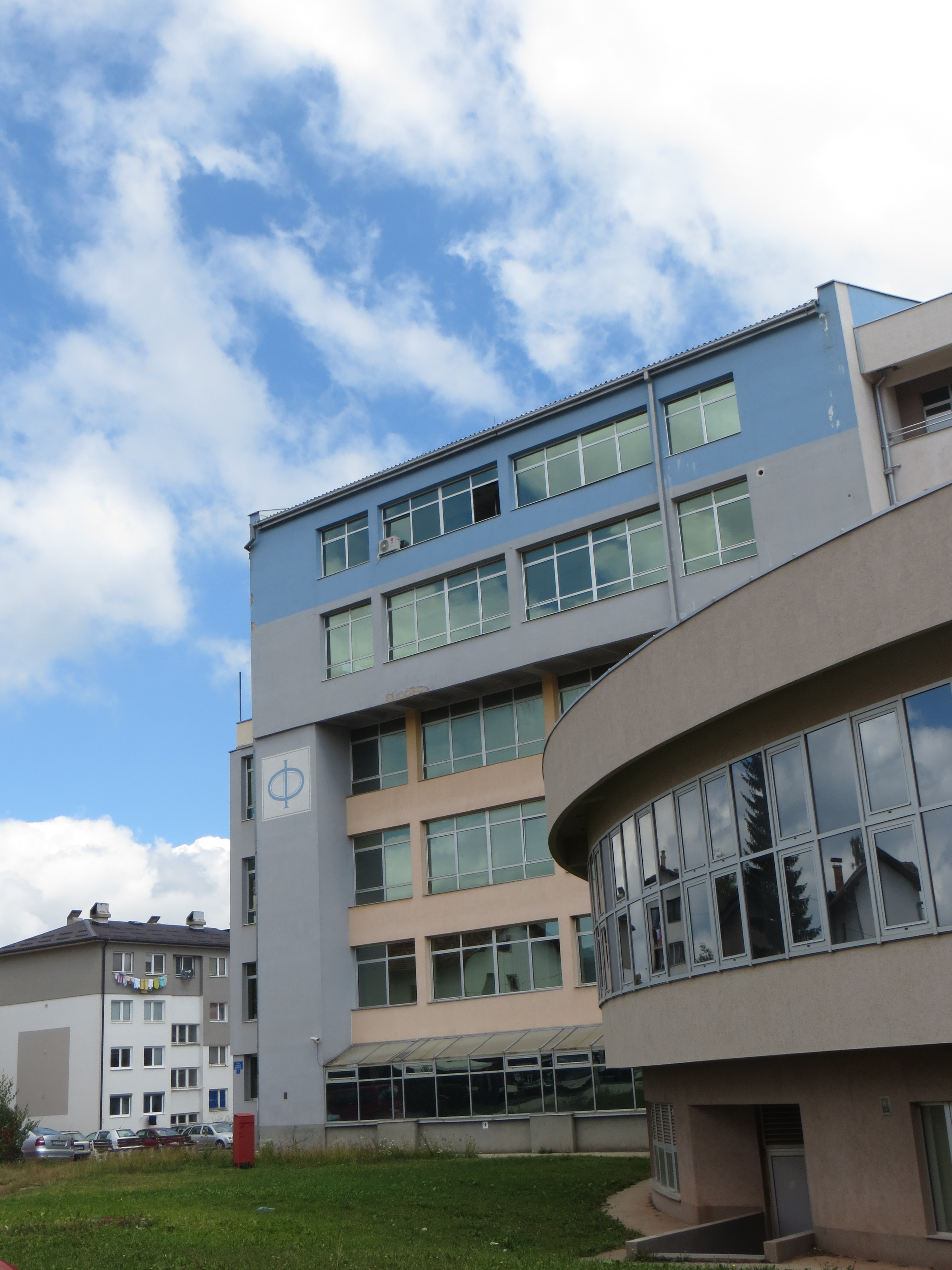 University building, Pale, Republic of Srpska